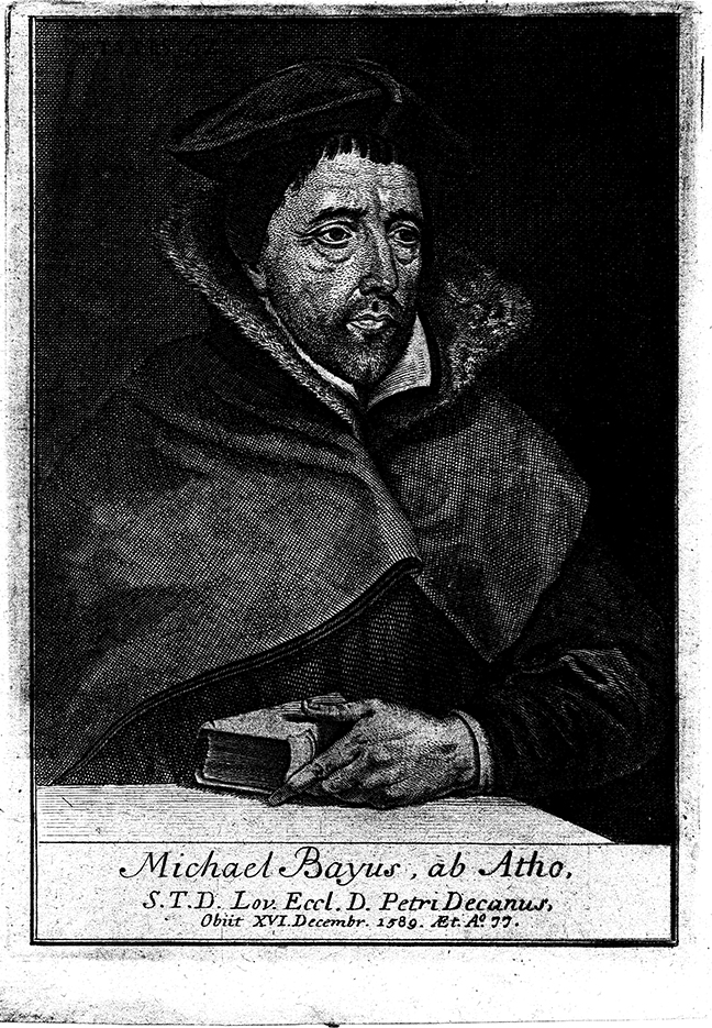 portrait of Michael Bayus at age 62 Professor of Sacred Theology, Louvain Dr of Ecclesiatical Studies Dean of St Peter's Cathedral, Louvain died 16 December 1589, aged 77.